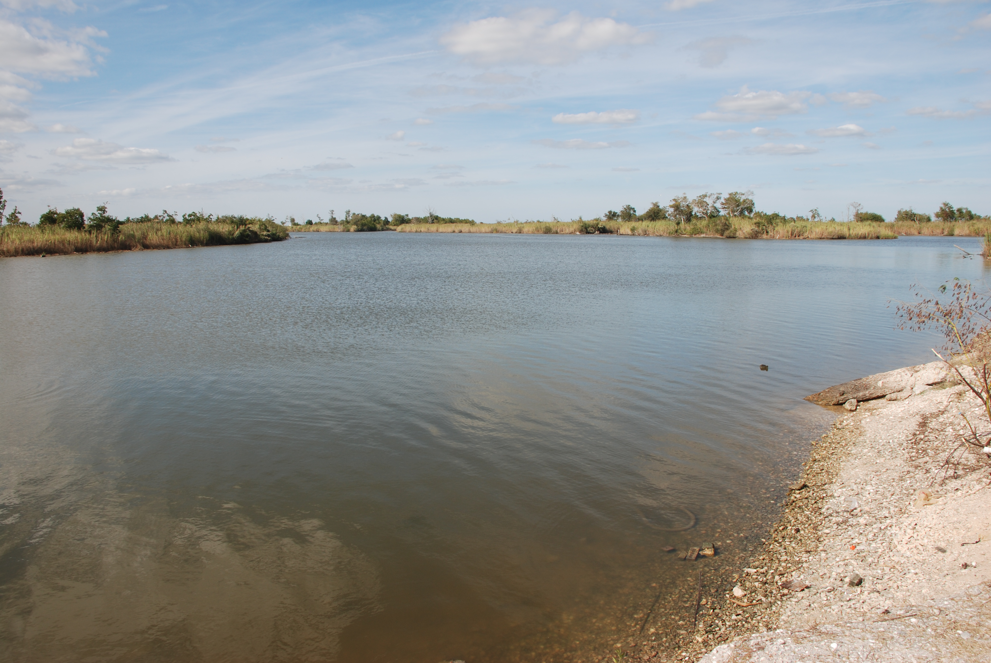 Trinity River in Anahuac (Texas, USA)